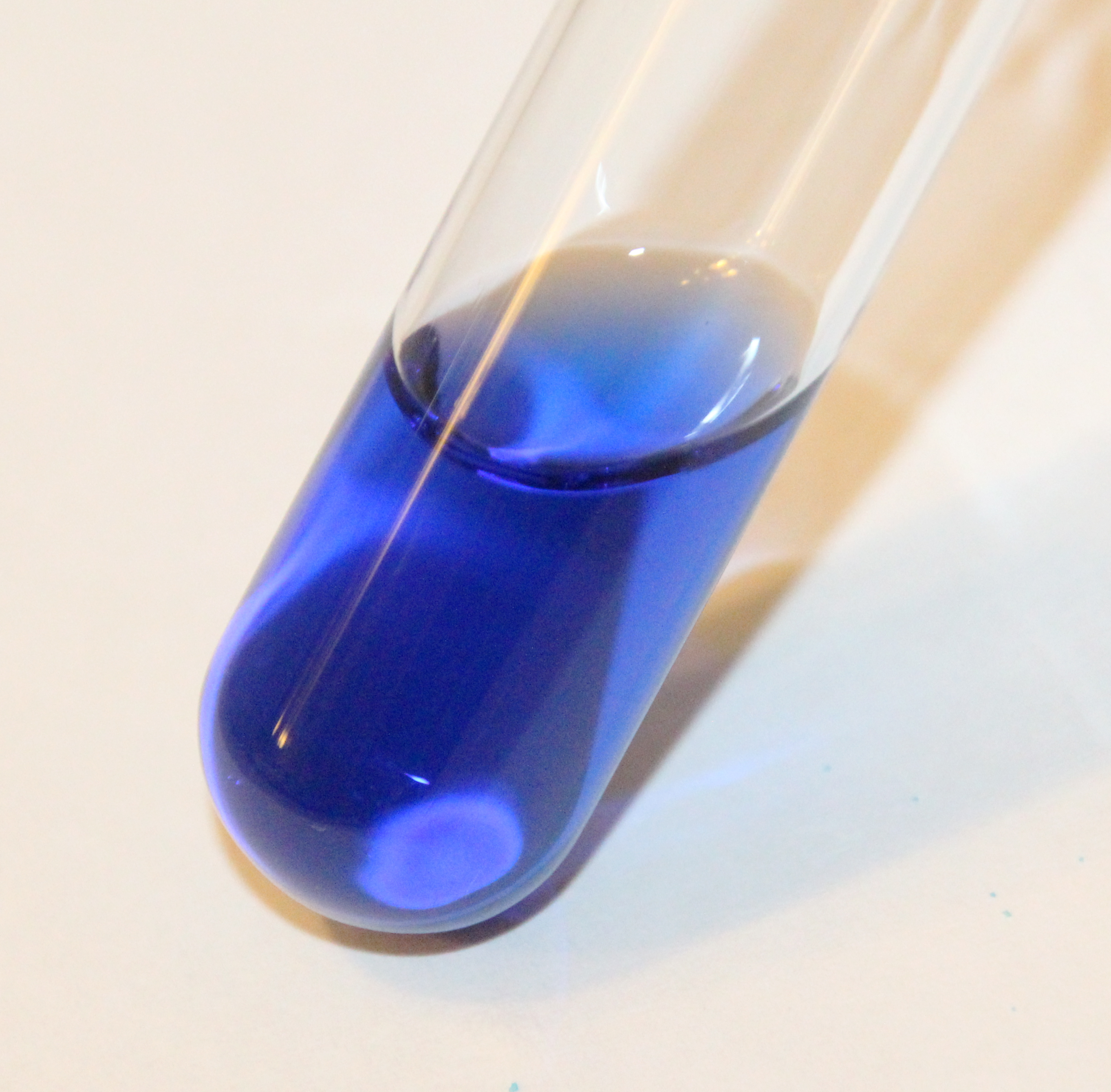 Tetrachlorocobaltate aqueous ion